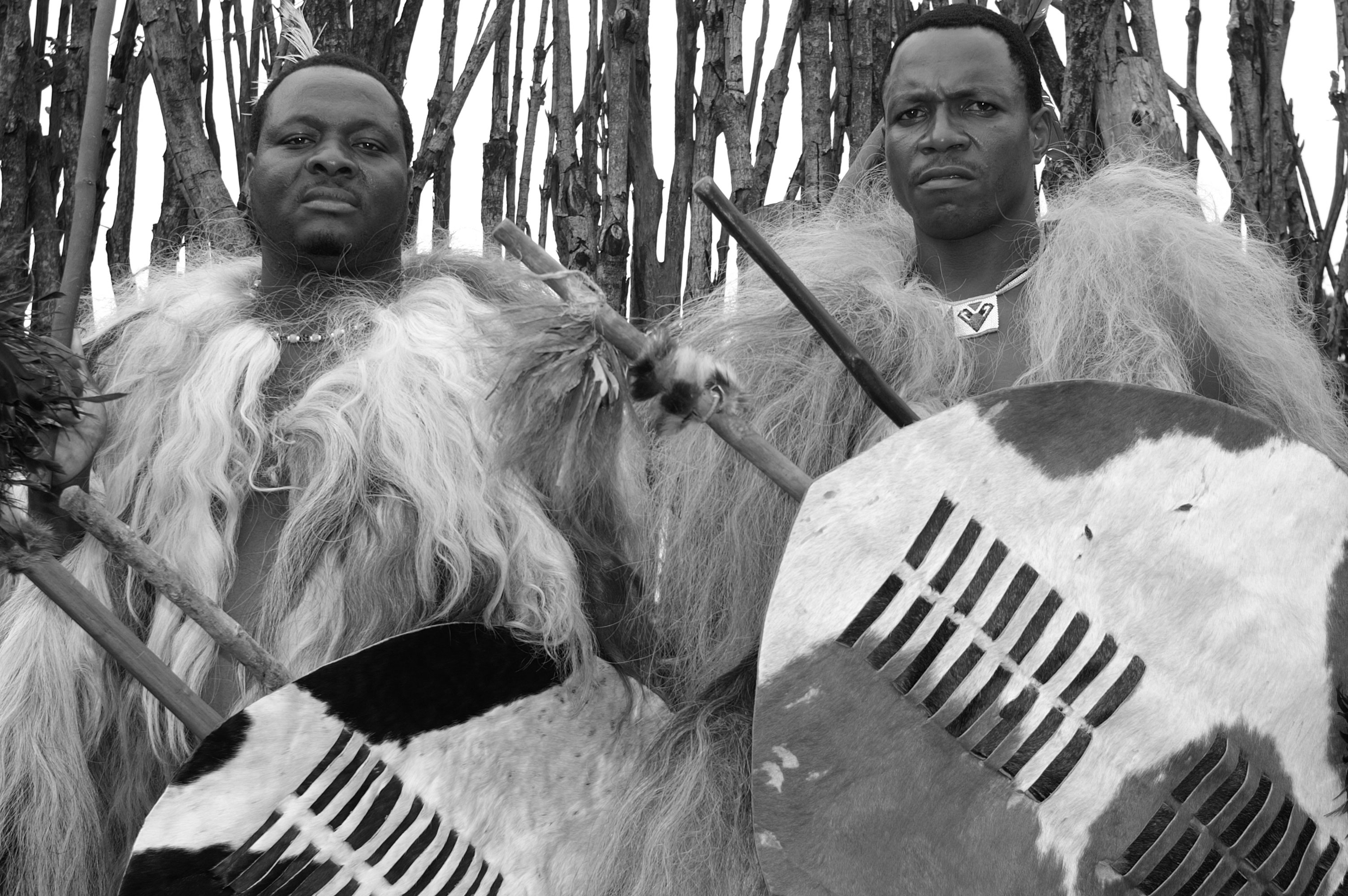 weekend warriors